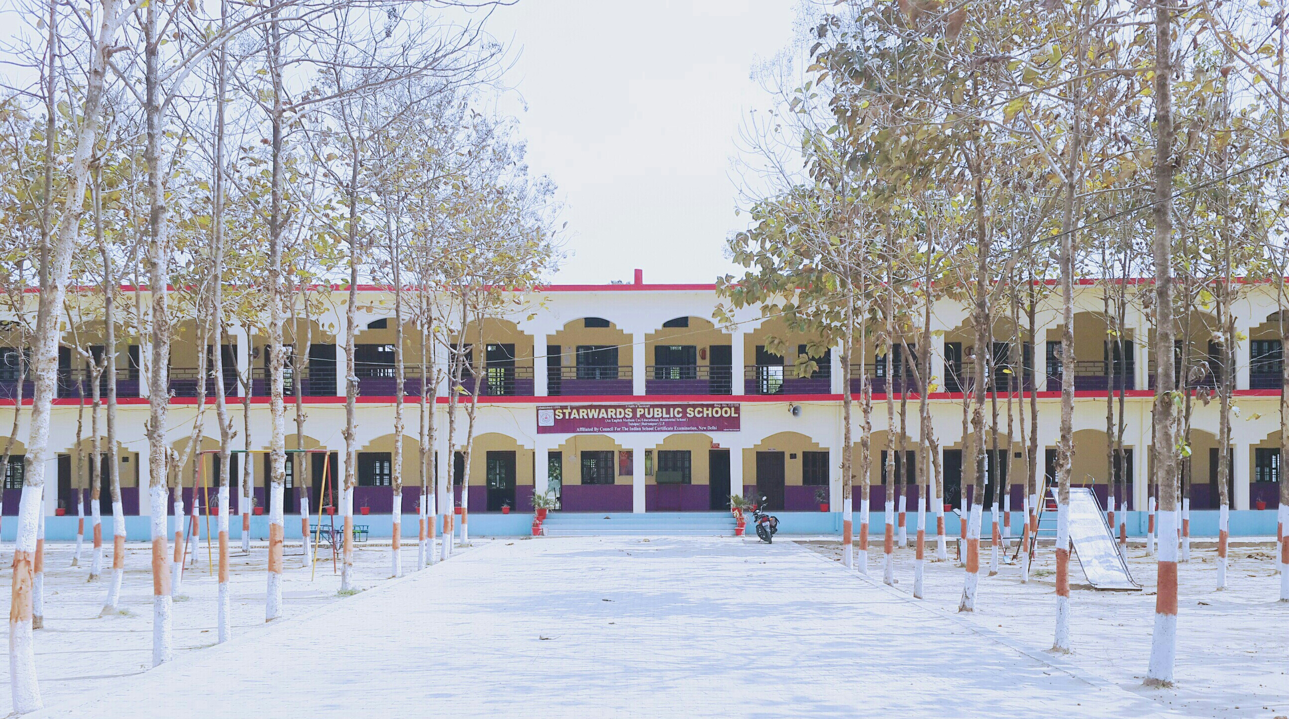 Starwards Public School